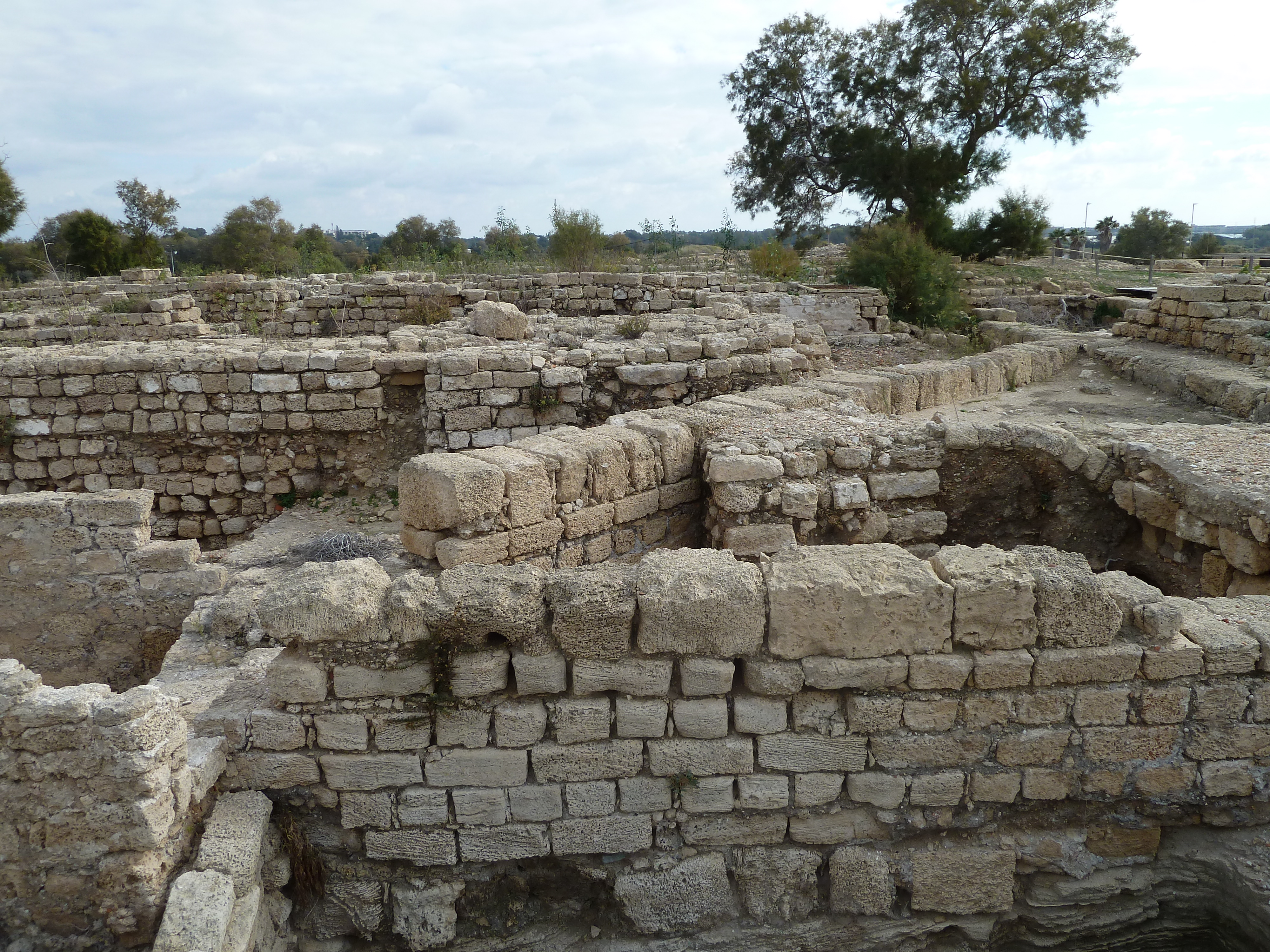 Byzantine Church of Caesarea Maritima, Israel